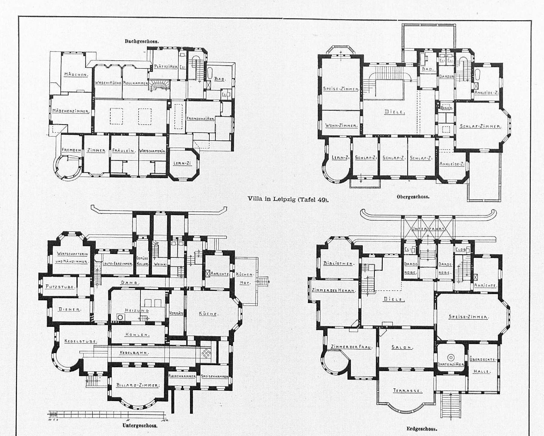 Villa in Leipzig, Schwägerichenstr. 23, Architekten Peter Dybwad, Leipzig, Tafel 49, Grundriss